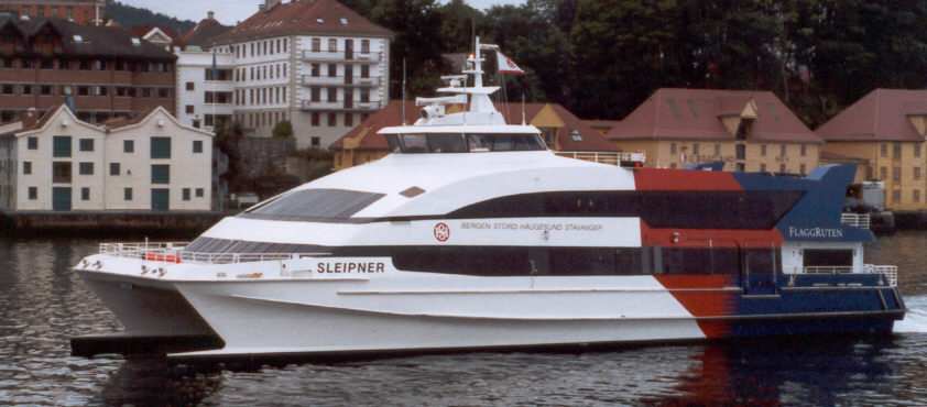 M/S Sleipner, built in 1999, arriving in the harbor of Bergen, Norway in 1999. Enroute from Stavanger and Haugesund. Photo by: Harald Sætre Feel free to notify photographer of any use outside of Wiki. Lossless crop of